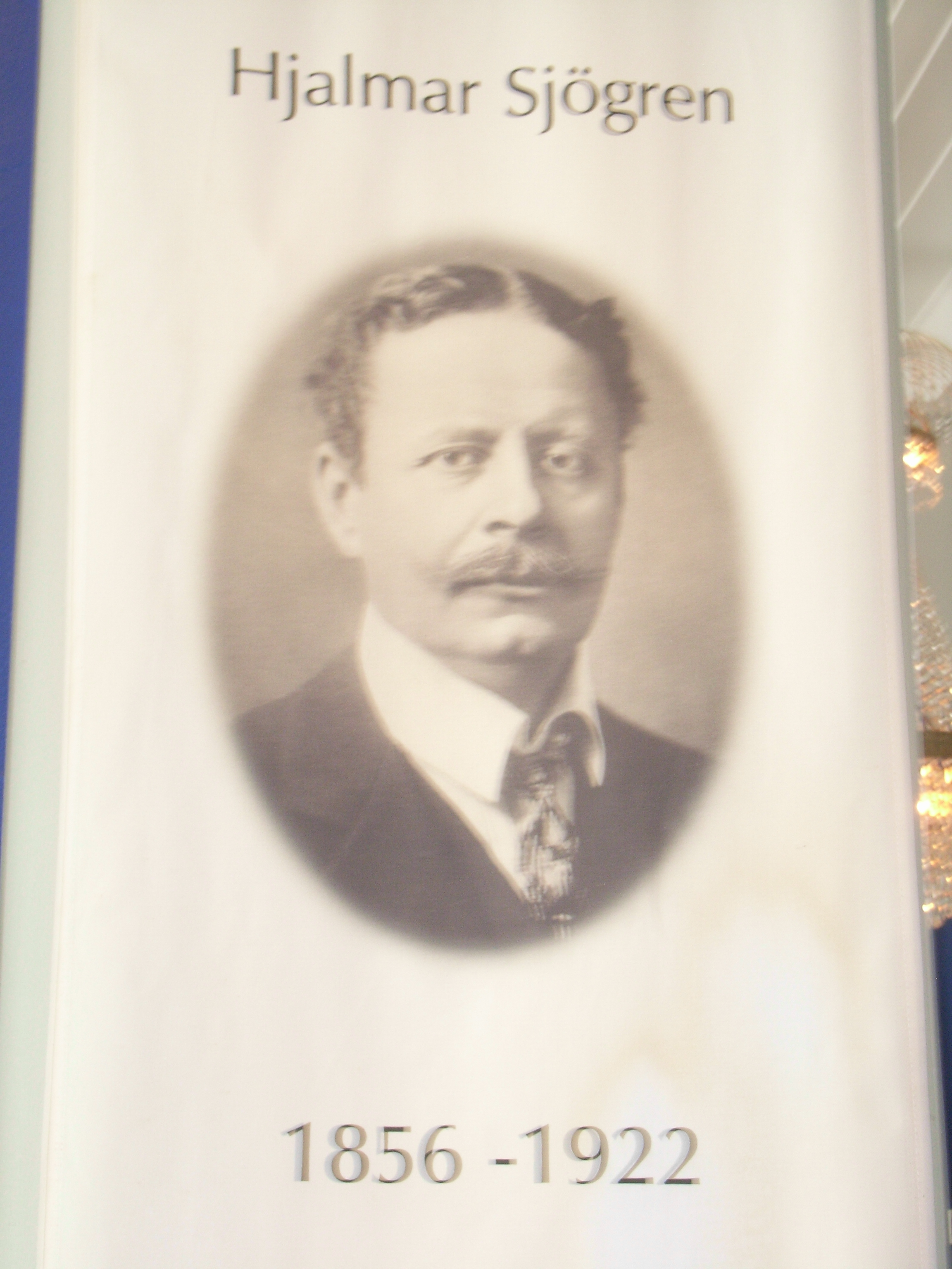 Hjalmar Sjögren Mineralogist